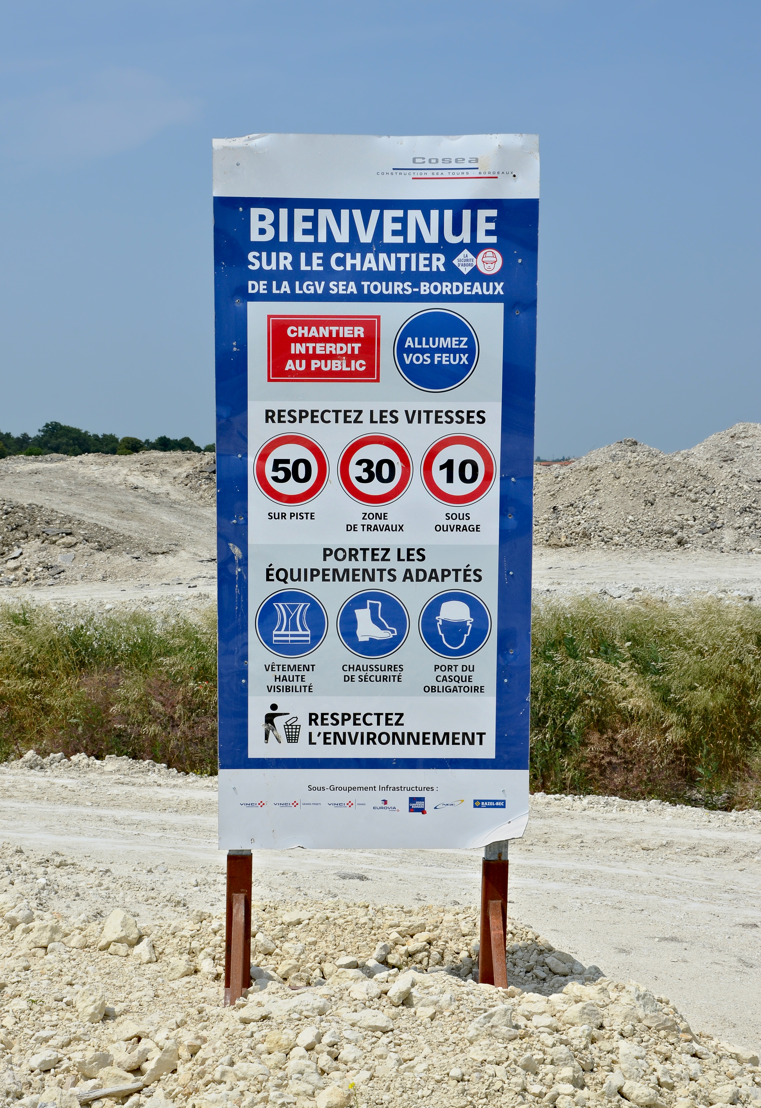 Sign at the entrance of a site of LGV Sud Europe Atlantique construction, near road D 130, Sainte-Souline, Charente, France.